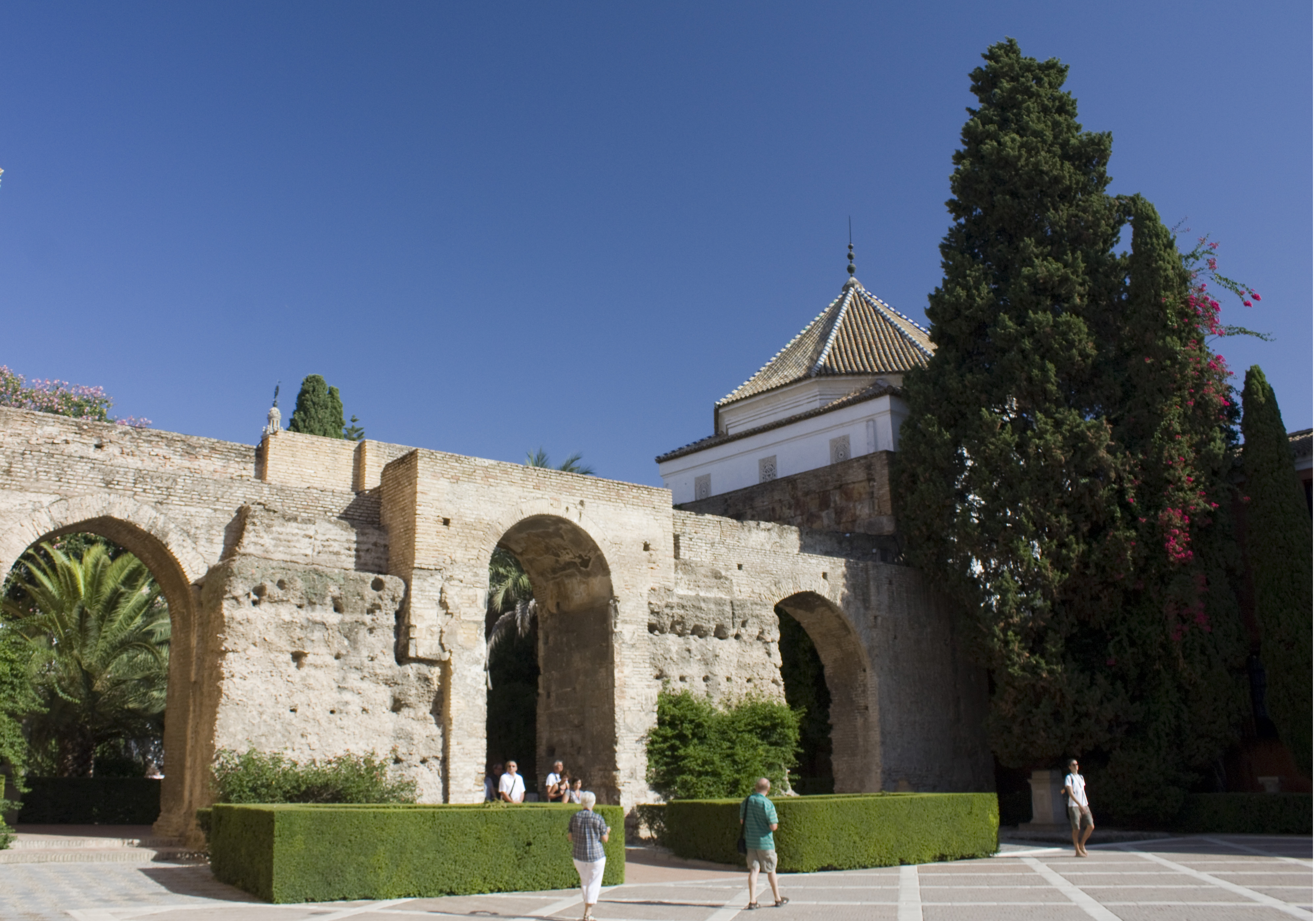 The courtyard of the Monteria, behind the wall of the ancient Mudejar fortress.